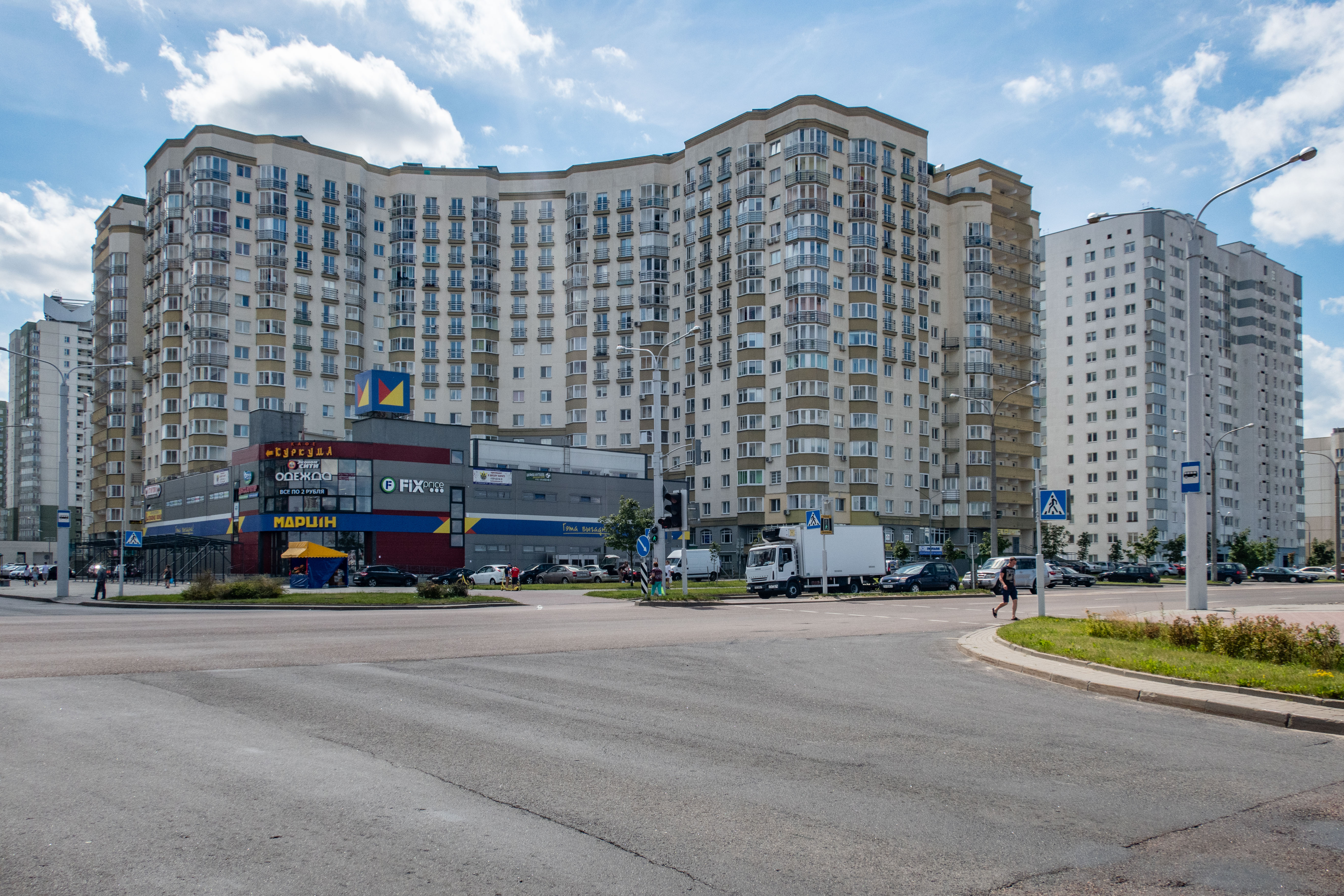 Kamiennaja Horka-5. Minsk, Belarus